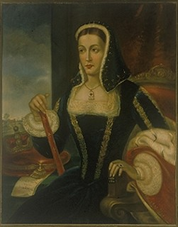 Eleanor of Arborea, imaginary aspect by Antonio Caboni